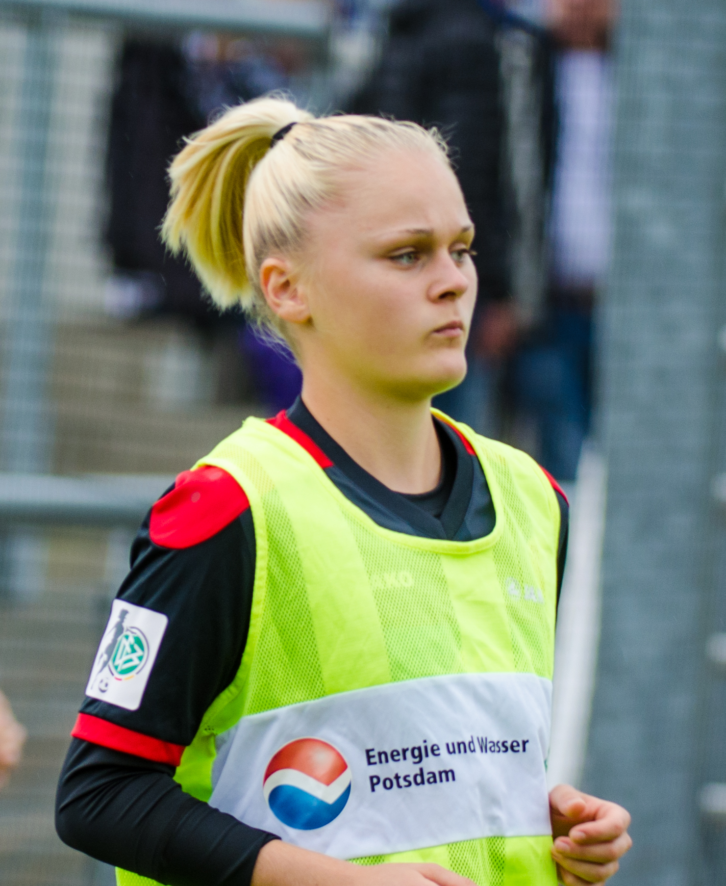 Match of the German Women's Football Bundesliga between 1.FFC Frankfurt and 1. FFC Turbine Potsdam, 2015-09-13